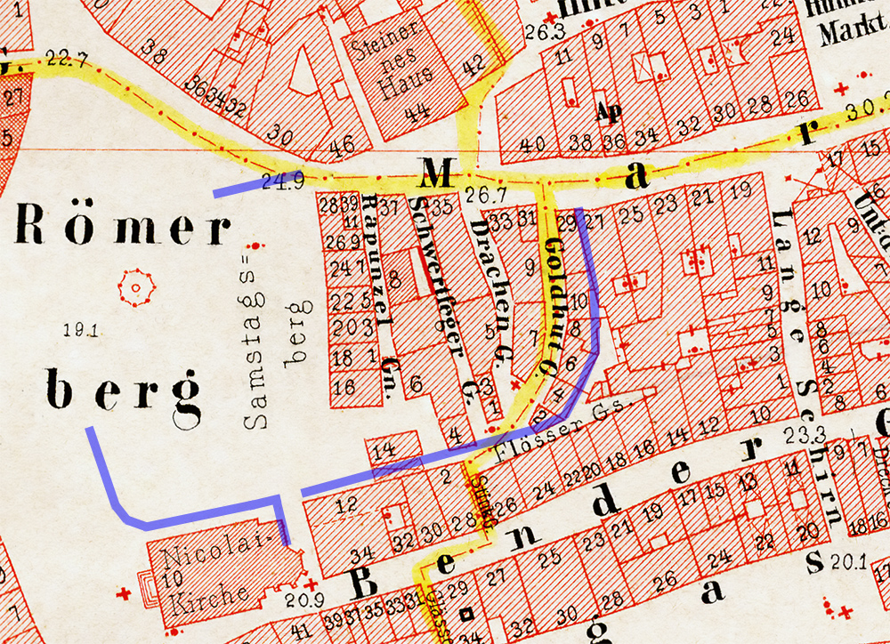 Frankfurt on the Main: Position of the partially proven franconian curtain wall around the Samstagsberg projected upon a city map of 1862